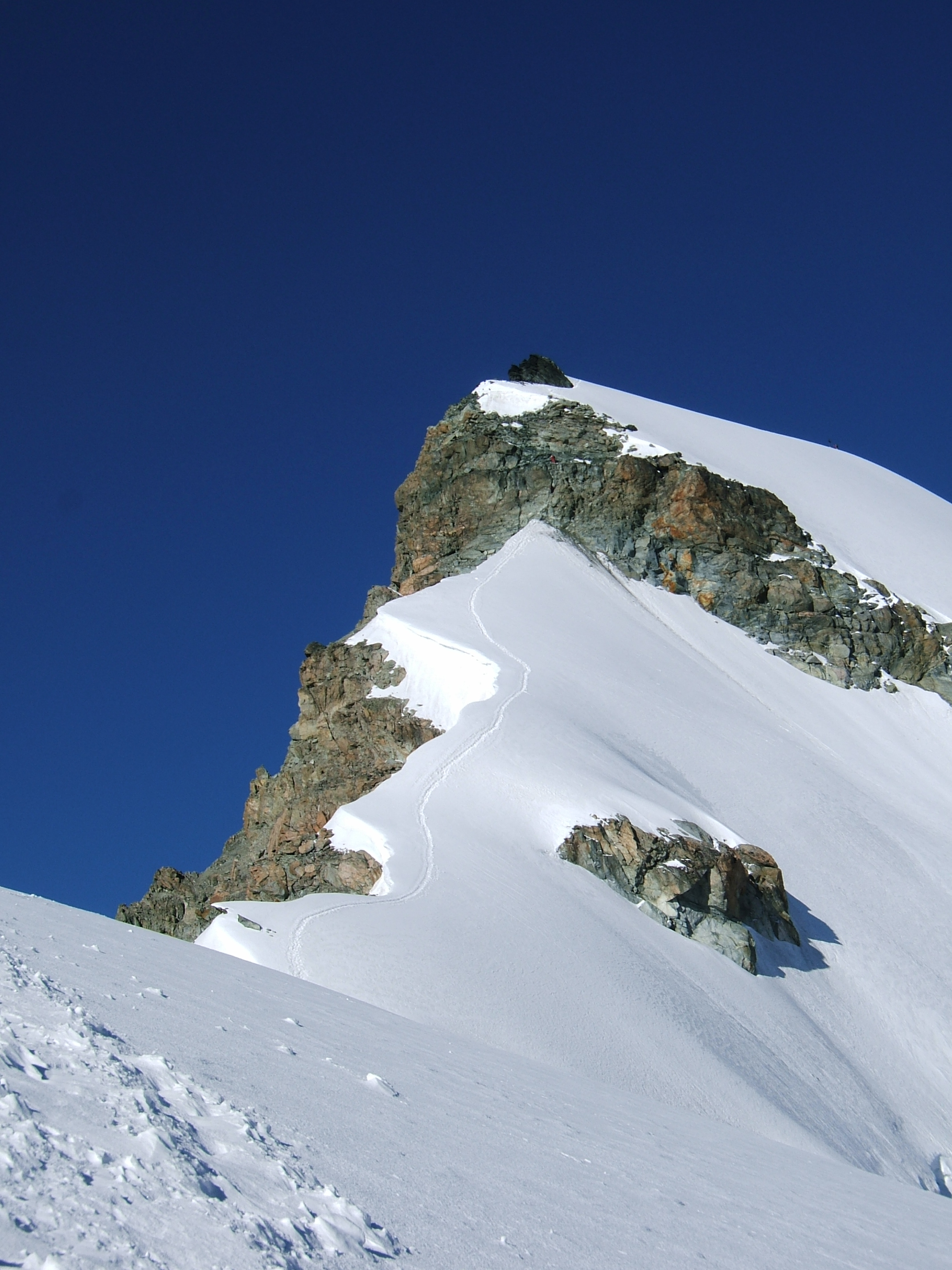 Allalinhorn, Hohlaubgrat from P.3837